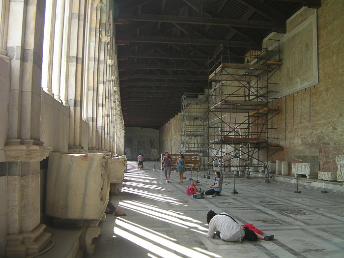 Interior of the historical cemetery Camposanto Monumentale, located at the Piazza dei Miracoli (Cathedral Square), Pisa, Italy.